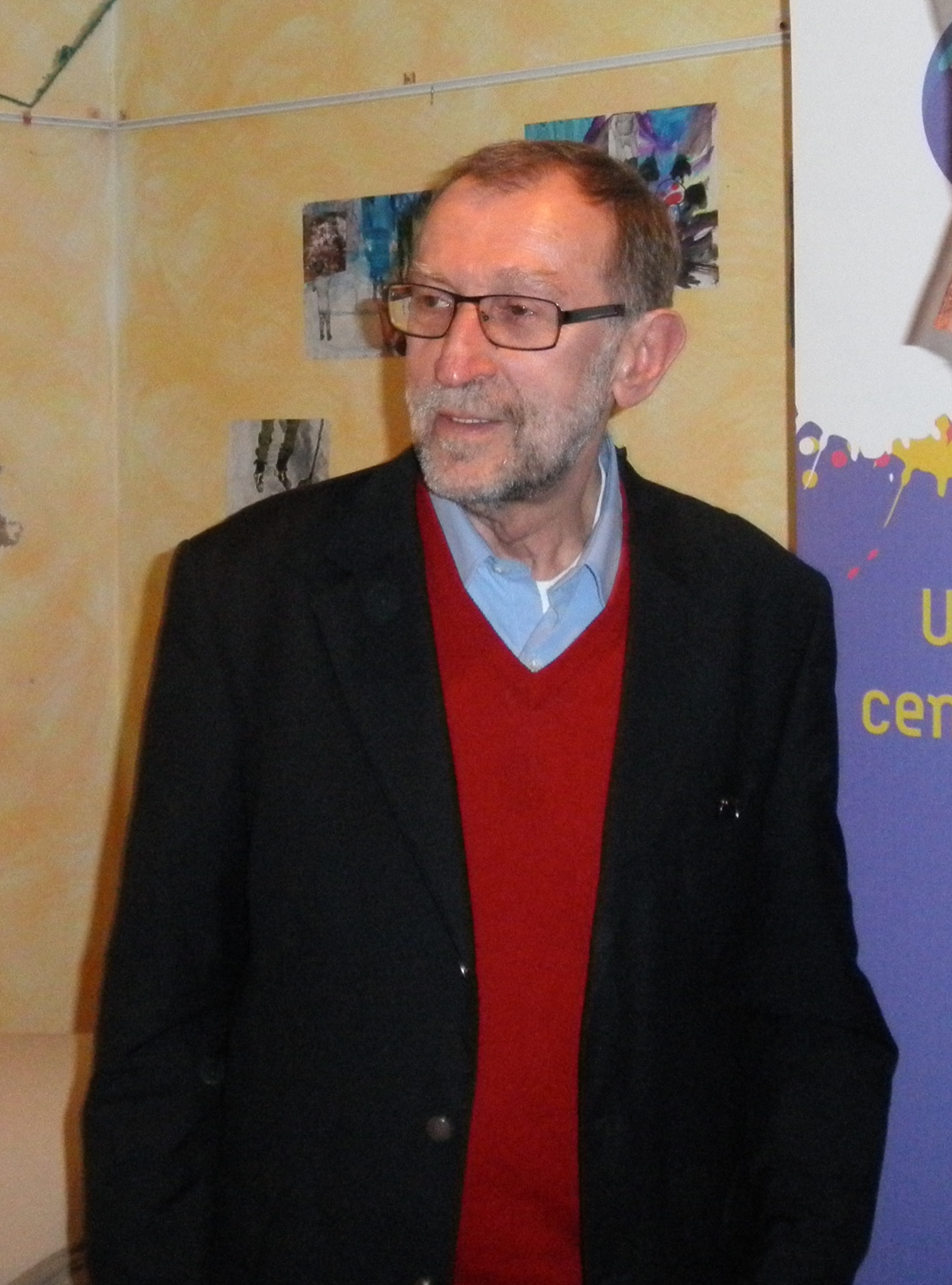 Prof. PhDr. Miroslav Verner, DrSc., Czech Egyptologist, archaeologist and epigraphist.